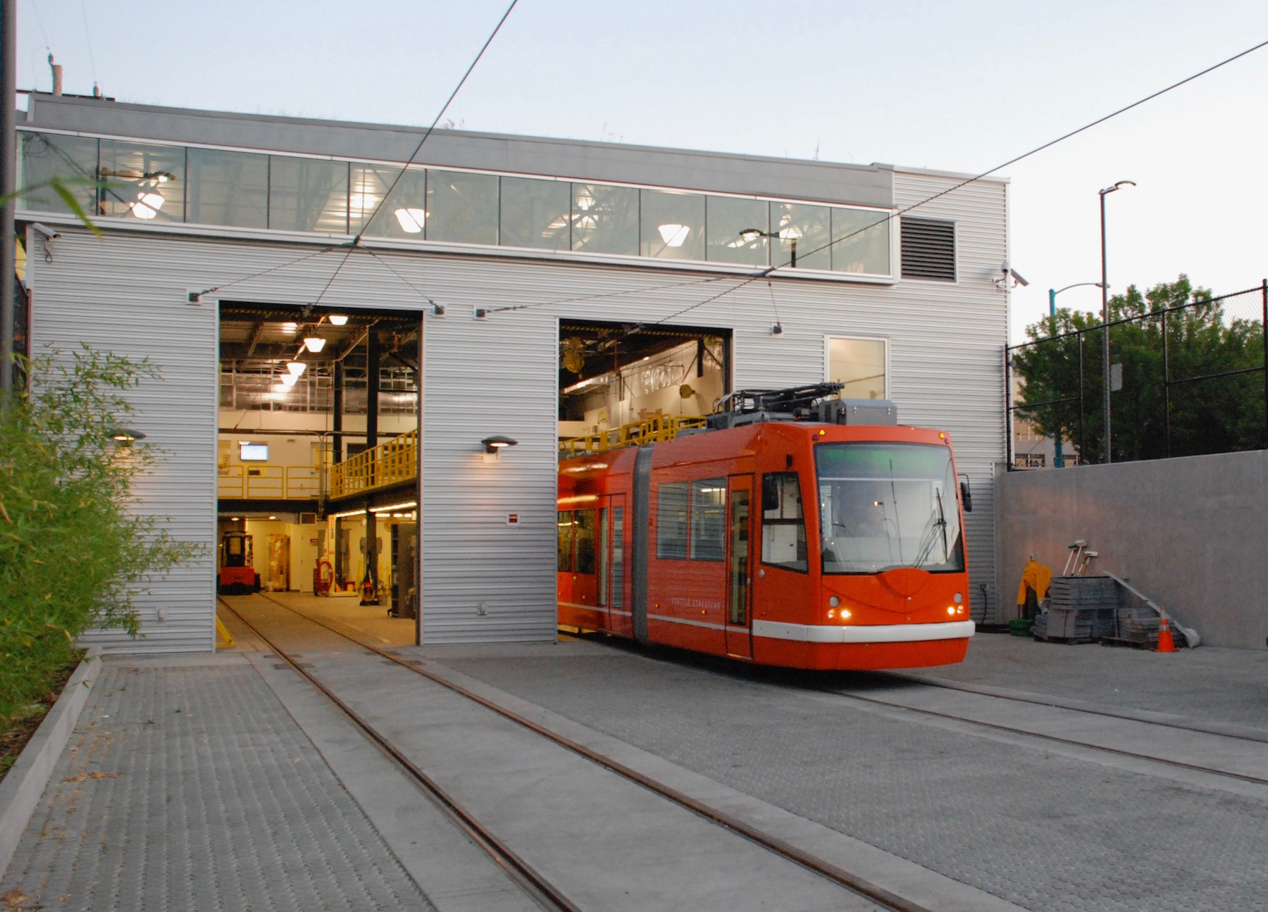 The maintenance facility for the Seattle Streetcar system's South Lake Union line, with car 302 pulling out. No. 302 is a 12-Trio streetcar built in 2006–07 by Inekon. (Note: The photographer obtained permission to photograph in this area.)